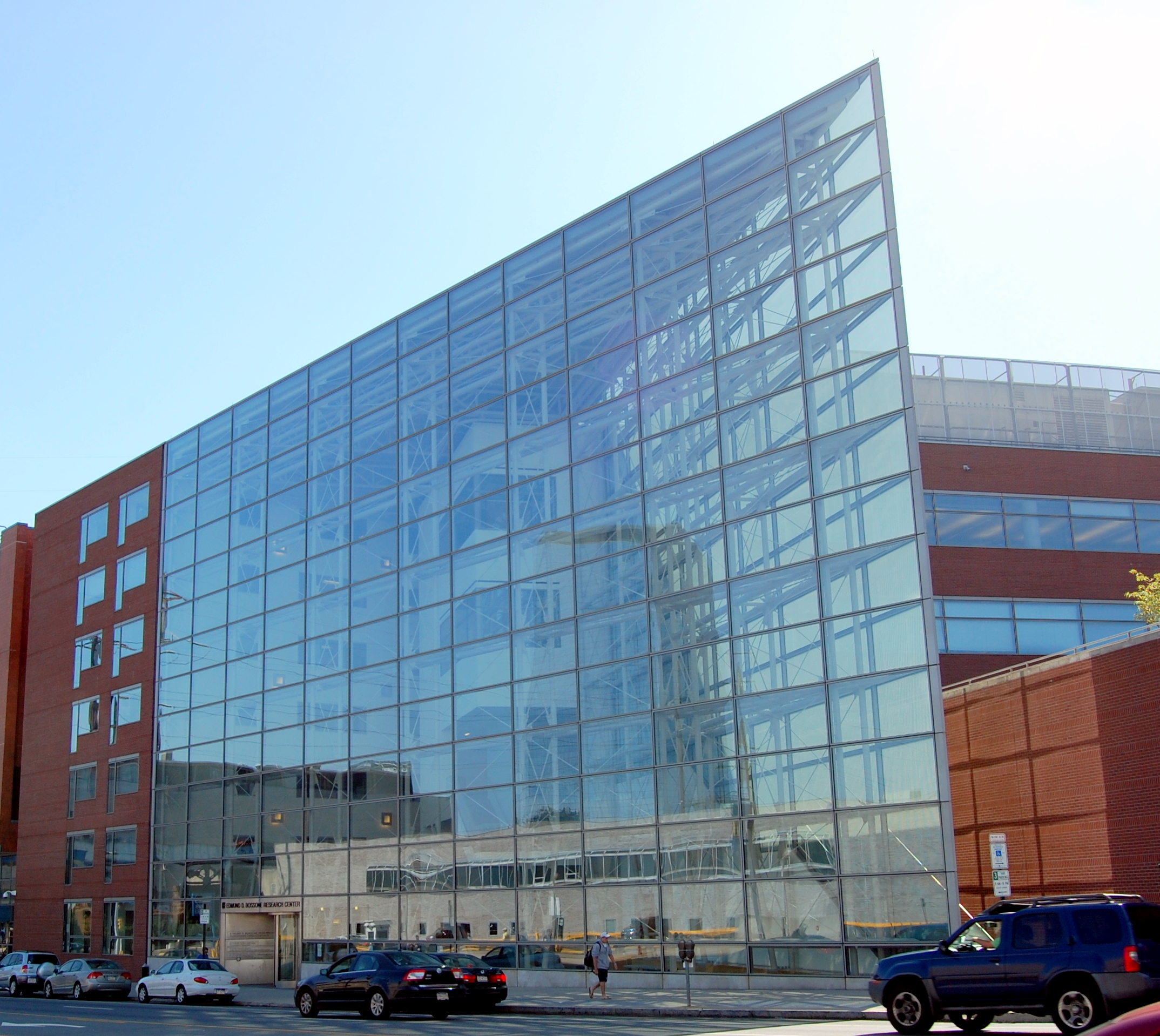 Drexel University College of Engineering- Bassone Research Enterprise Center